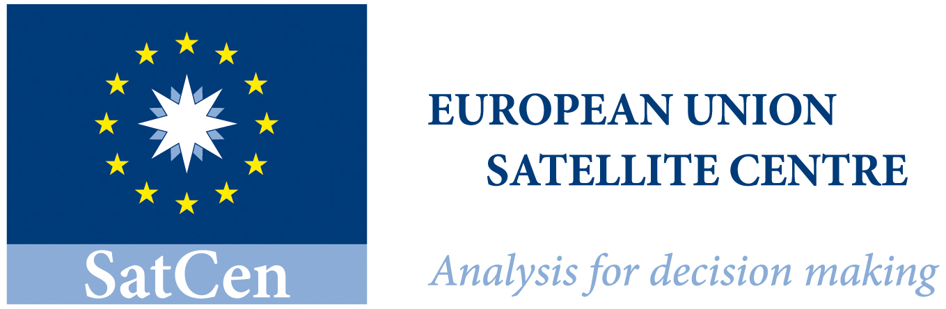 New SatCen logo